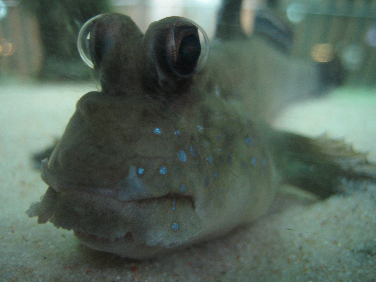 Periophthalmus sp. in Cosmocaixa